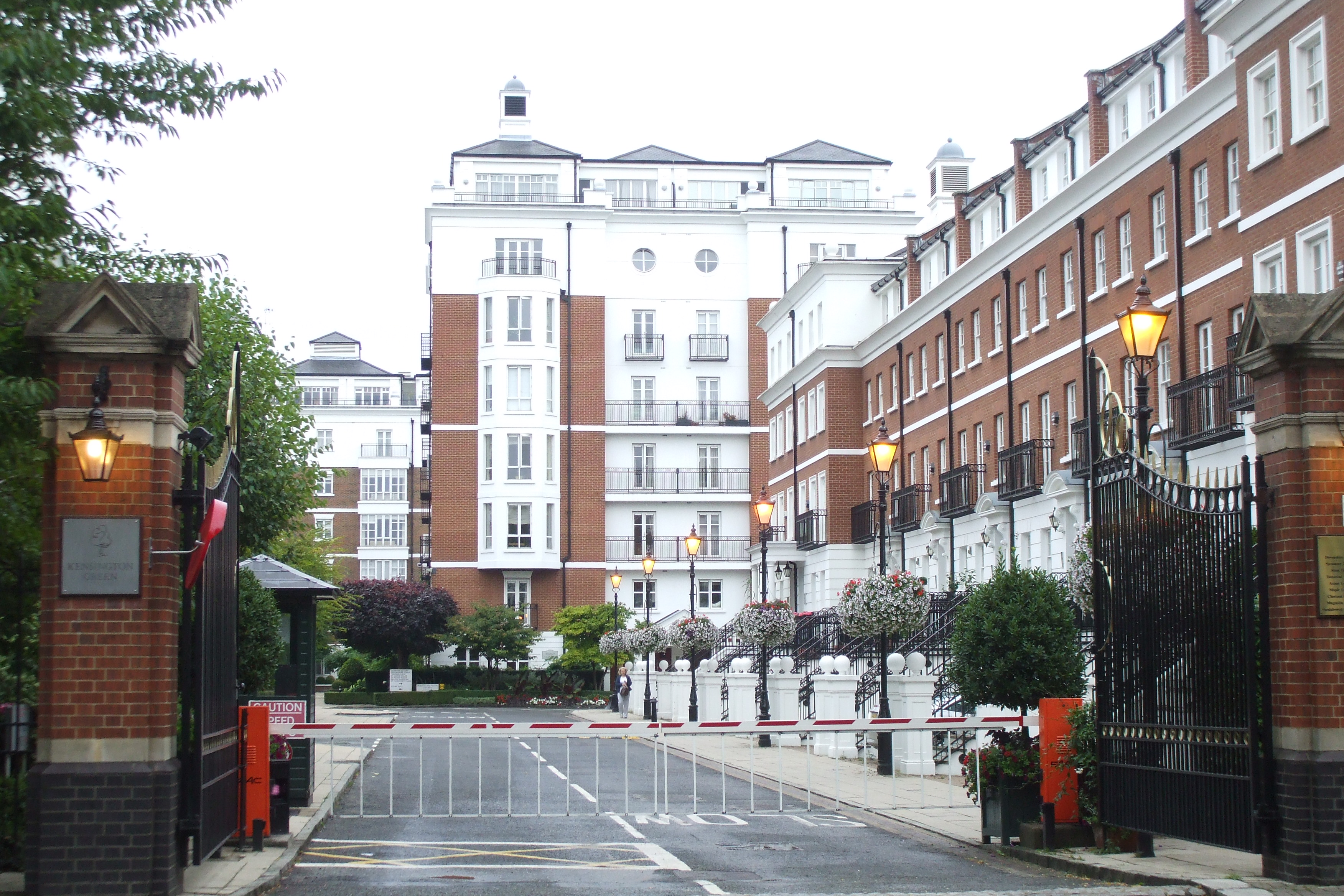 Kensington Green, W8